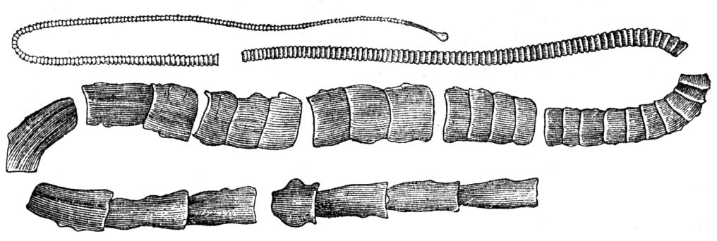 Taenia saginata (beef tapeworm)